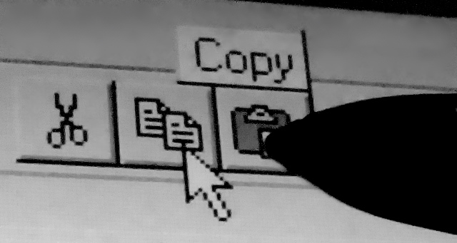 The pen-controlled mouse-pointer of a 1992 Compaq Concerto.